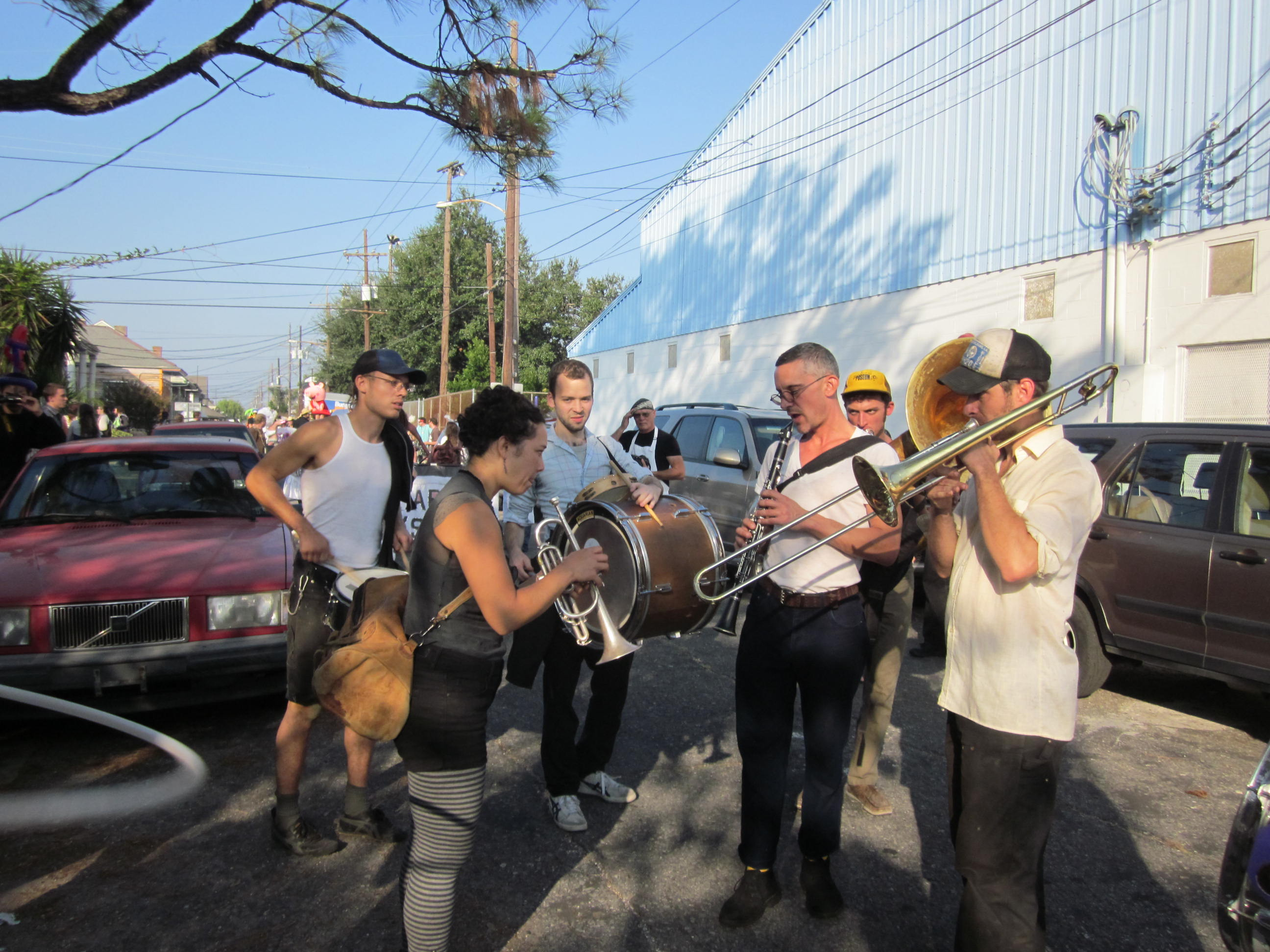 New Orleans. Stop at the Ironworks on Piety Street, during the Fringe Festival CarnivOil Parade.